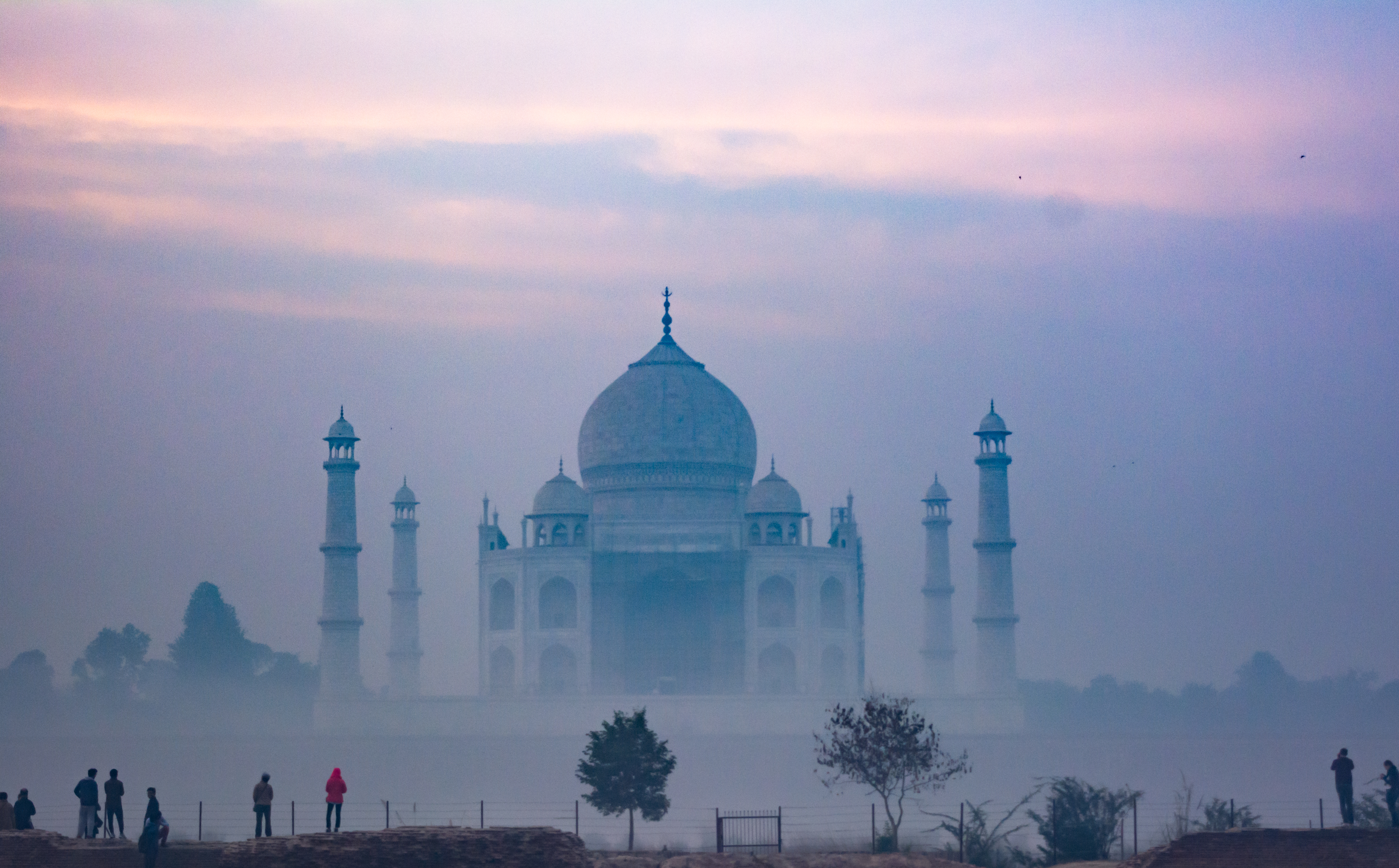 Watching one of the seven wonders of the world is always a memory to be cherished. The view taken from a view point called "Mehtab Bagh", which is located on the banks of river Yamuna, opposite to Taj mahal. The picture was taken early morning before sunrise on like any other winter season. The mystical look was added because of the dense fog, and the smog being an add on.